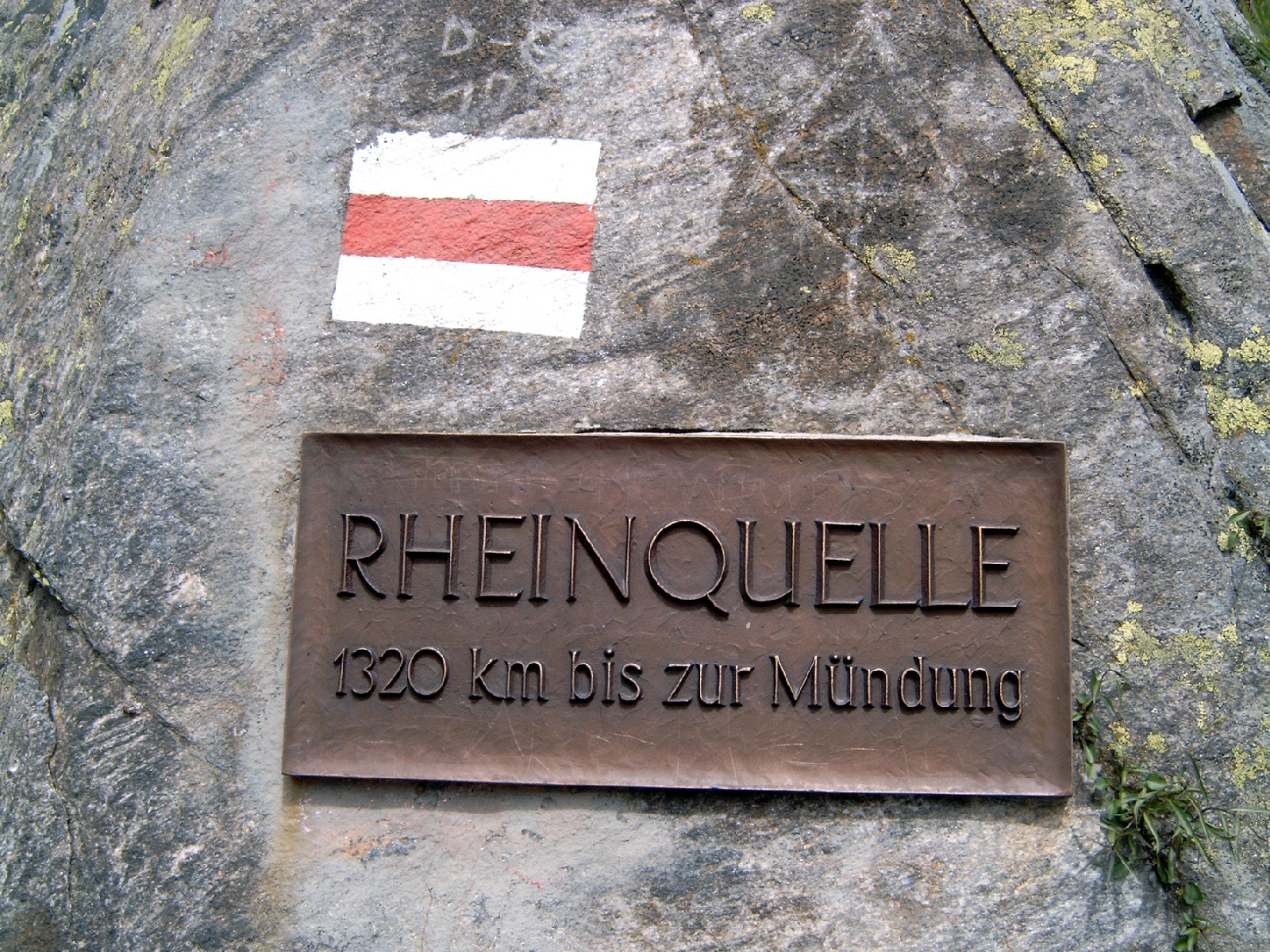 German language sign at Lai da Tuma, Surselva, Graubünden, Switzerland at the source of the Rhine. It says: “Rhine source: 1320 km to the outflow”.